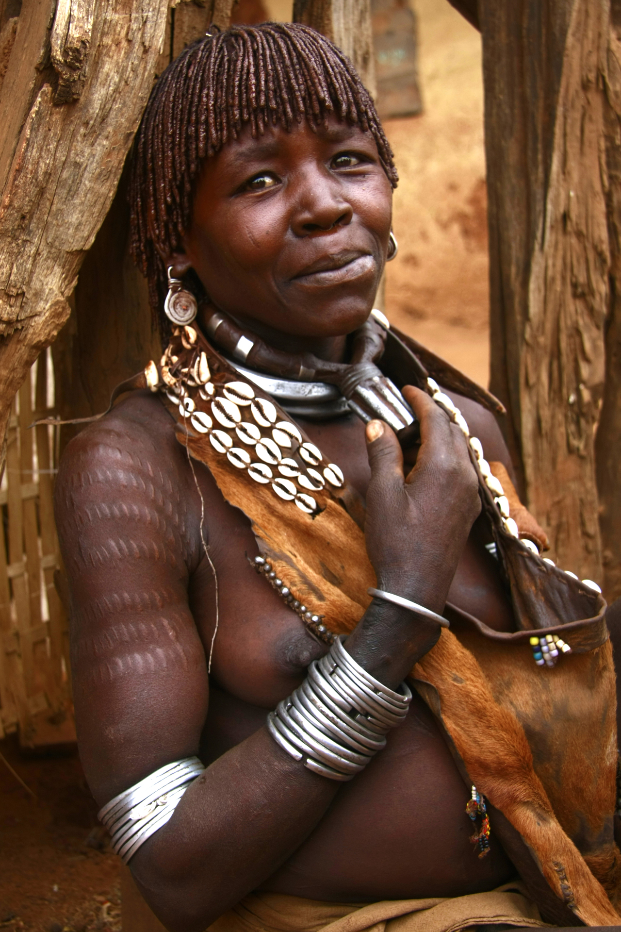 Shots depicting the Lower Valley of the Omo River, UNESCO World Heritage Site, and inhabitants of Southern Ethiopia.